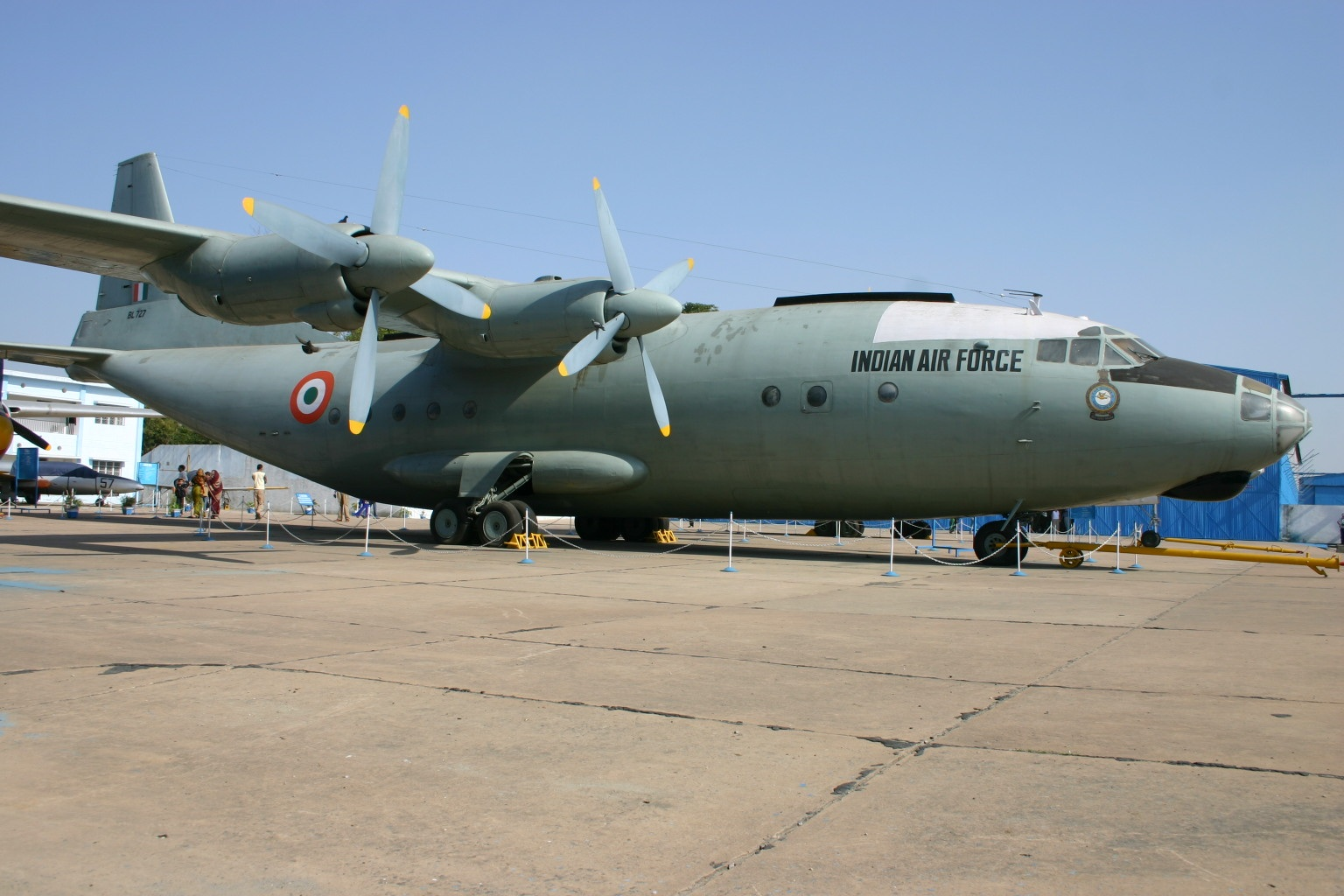 Antonov AN-12 at Indian Air Force Museum Palam